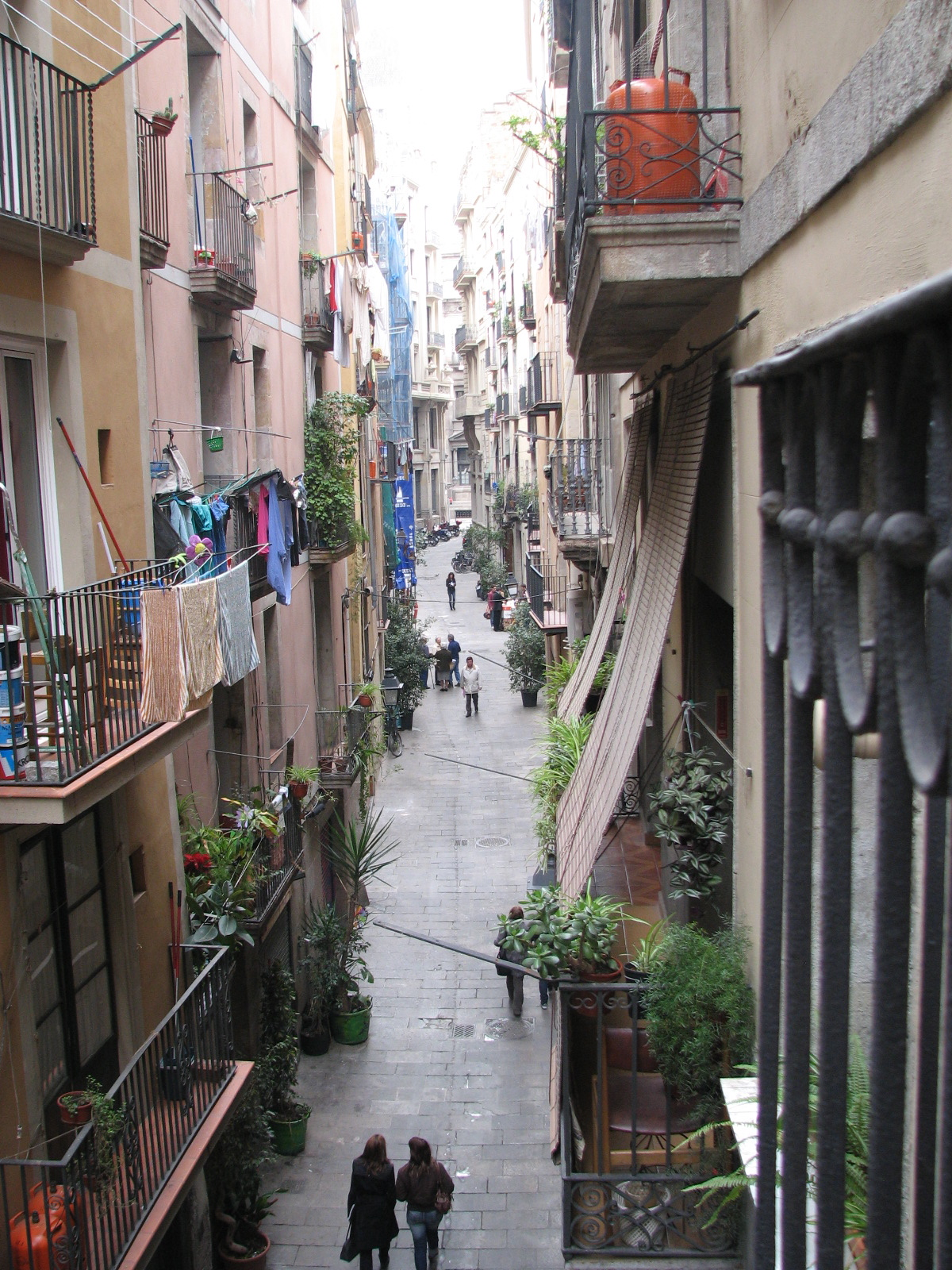 Image of Carrer dels Agullers in the neighborhood of La Ribera, at the district Ciutat Vella, Barcelona